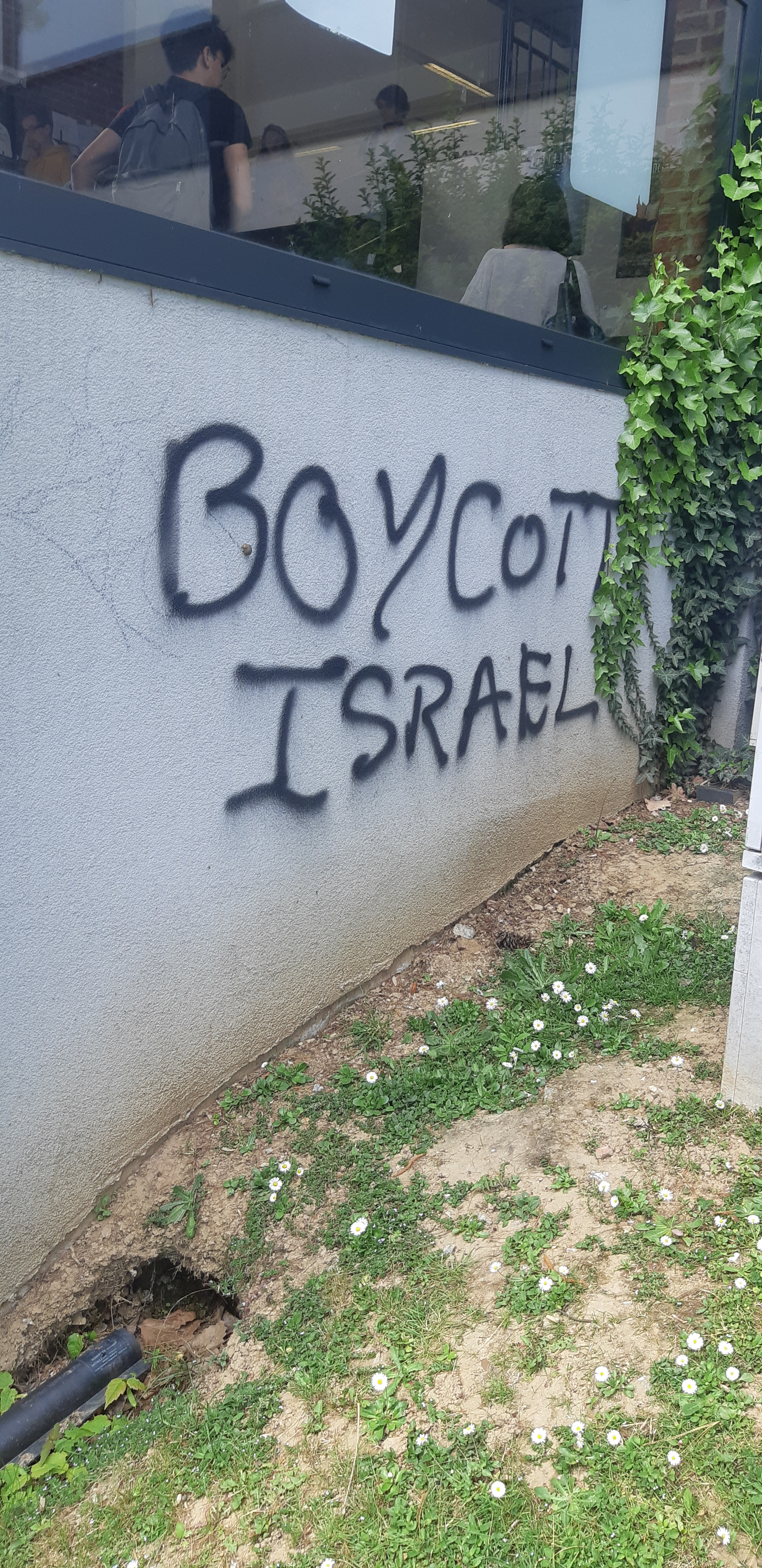 University wall tagged by the BDS movement